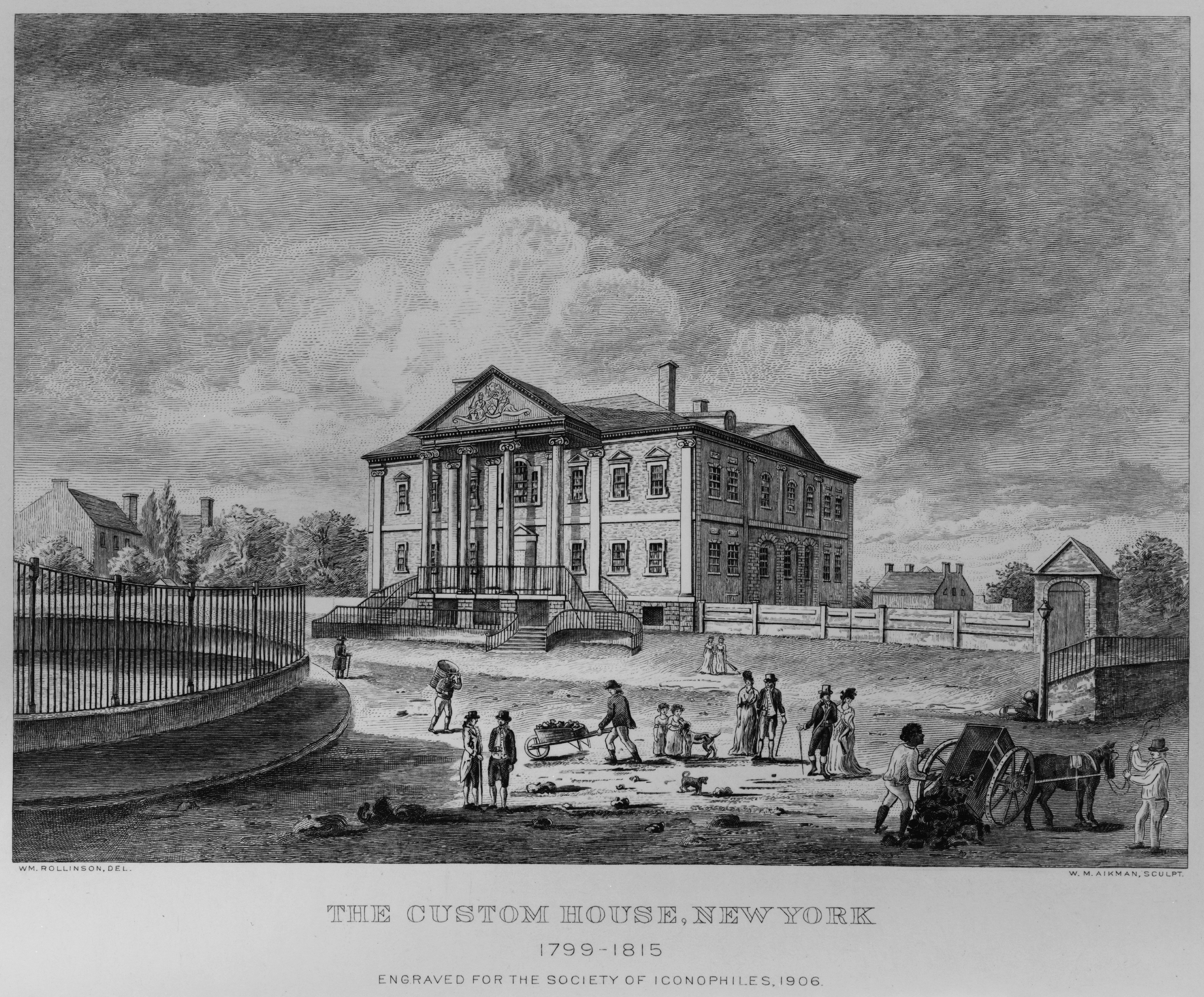 Title: The Custom House, New York, 1799-1815 / Wm. Rollinson, del. ; W.M. Aikman, sculpt. Creator(s): Aikman, Walter Monteith, 1857-1939, engraver Date Created/Published: 1906. Medium: 1 print : engraving. Reproduction Number: LC-USZ62-100972 (b&w film copy neg.) Call Number: PGA - Society of Iconophiles--The Custom House ... [P&P]